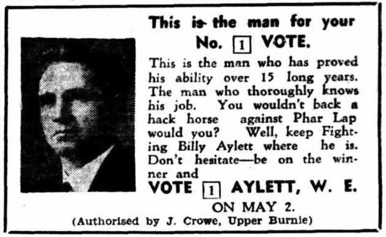 Electoral advertisement for Senator Bill Aylett used at the 1953 Australian Senate election. Against the wishes of his party, his campaign material instructed voters to rank him first on the ballot paper, above three other candidates higher on the official Australian Labor Party ticket.